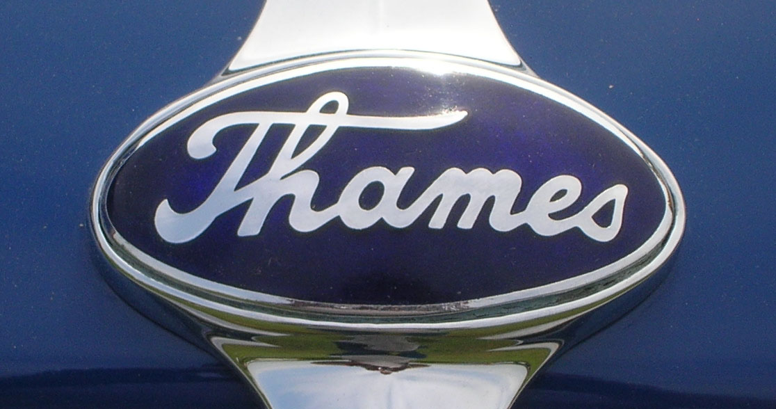 Badge of Thames, Ford's UK commercial brand